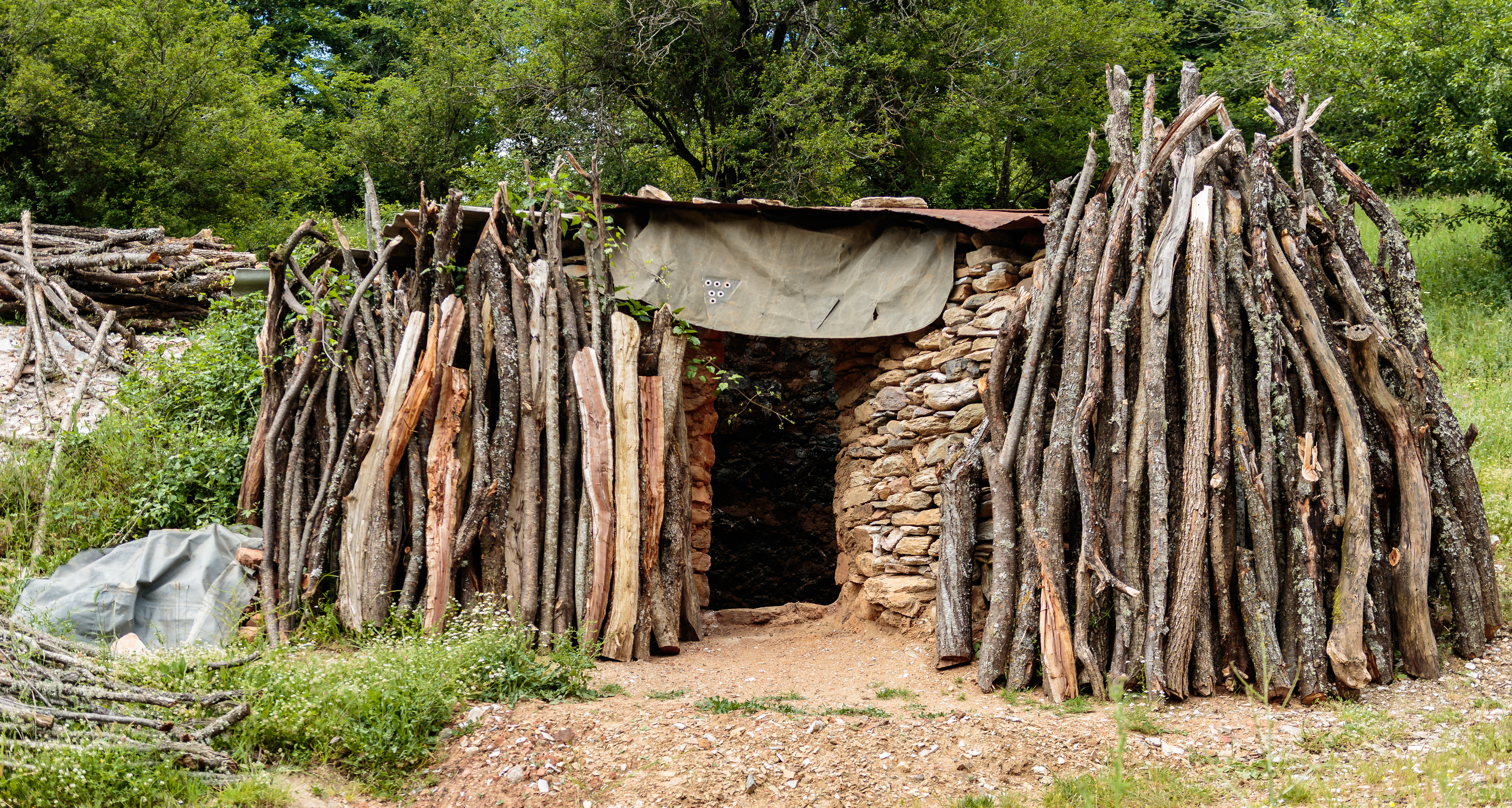 Lime pit in the village of Brezovo, Macedonia